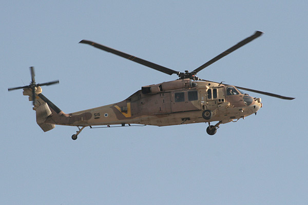 UH-60 Black Hawk in IAF cadet graduation ceremony, #154